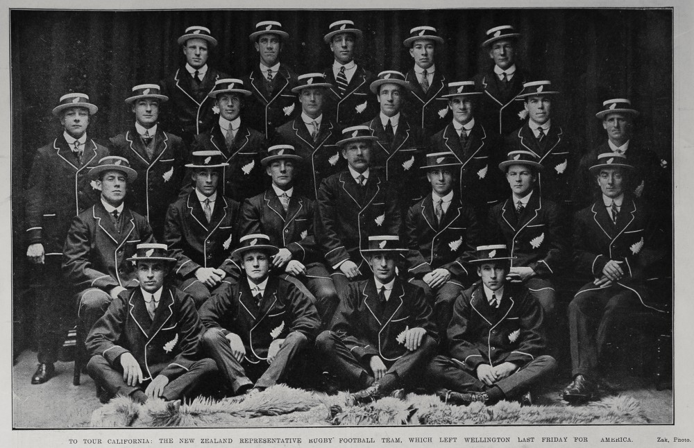 The New Zealand national rugby union team, known as the All Blacks, that toured the United States in 1913. The caption reads: "To tour California:: The New Zealand representative rugby football team, which left Wellington last Friday for America."